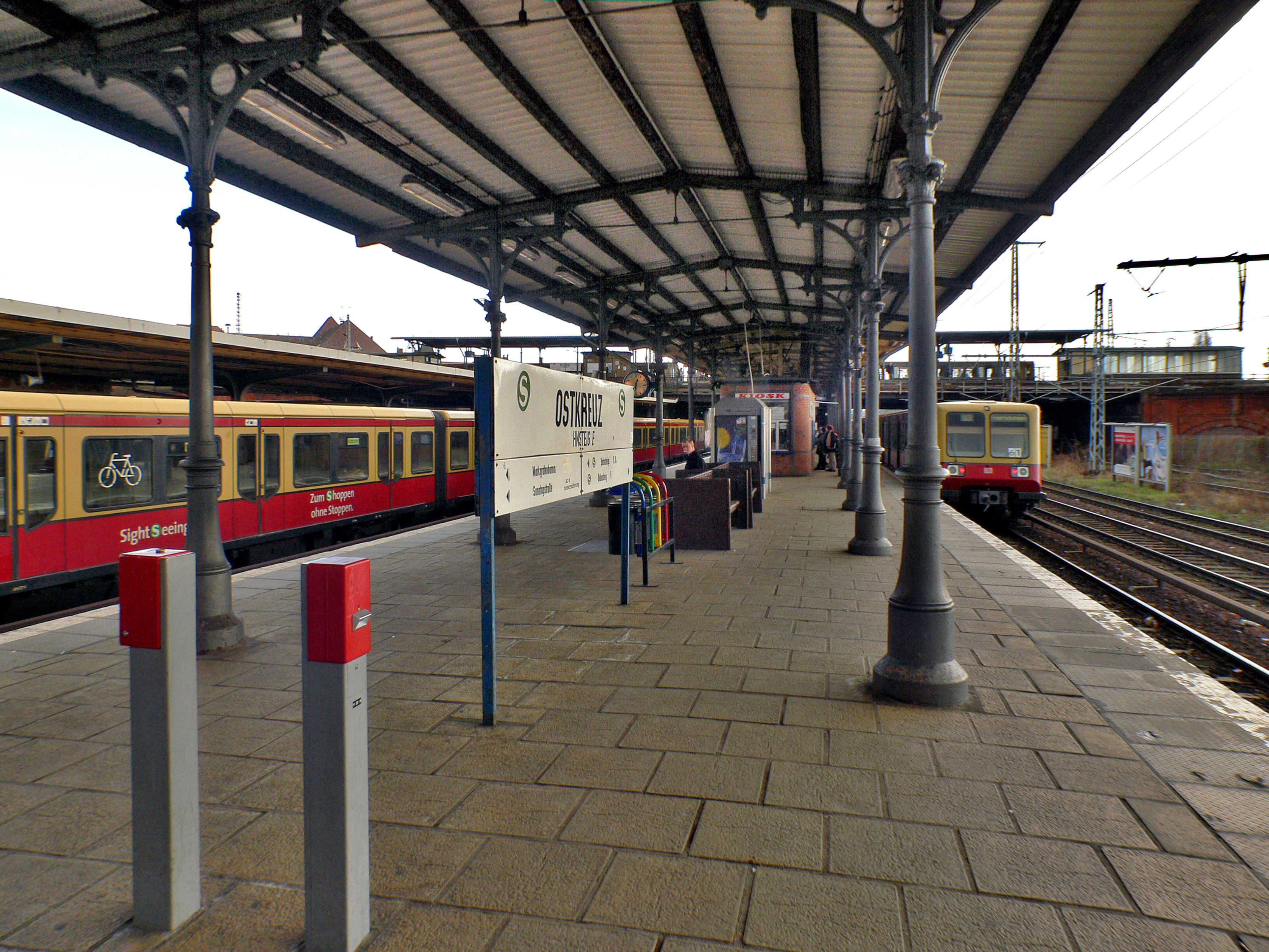 Ostkreuz S-Bahn station, Berlin, Germany